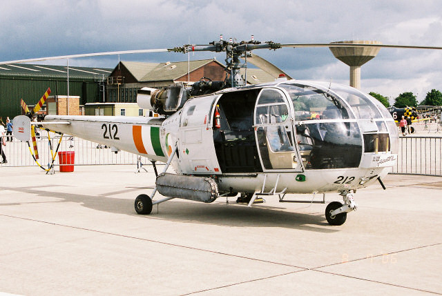 Aérospatiale SA 316B, 212 3opswgat, at RNAS Yeovilton. Taken with Canon EOS 620.